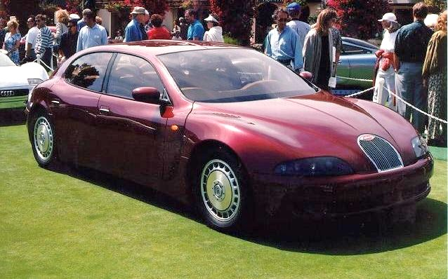 Bugatti EB112.